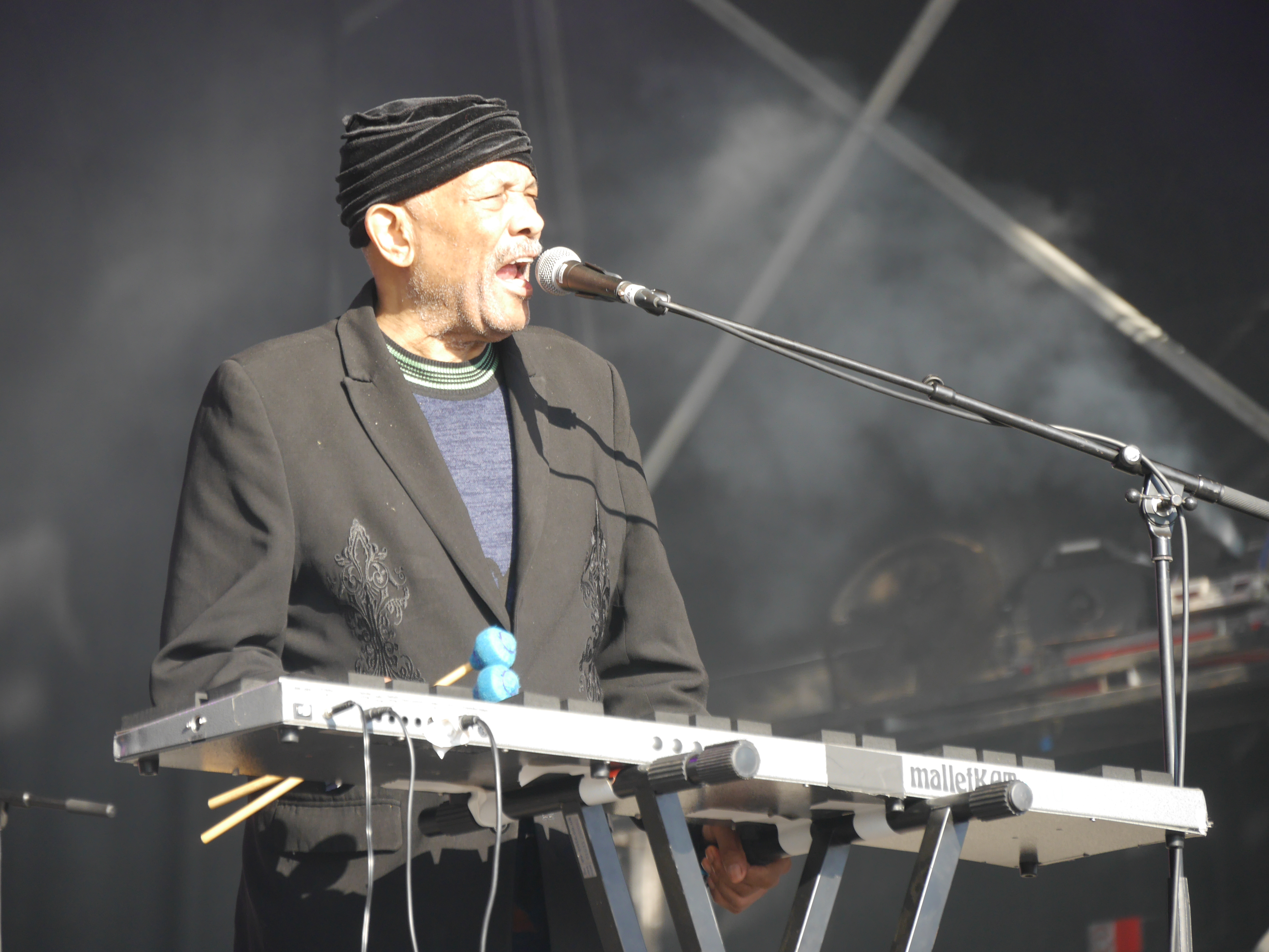 Roy Ayers 2019 Glastonbury Festival